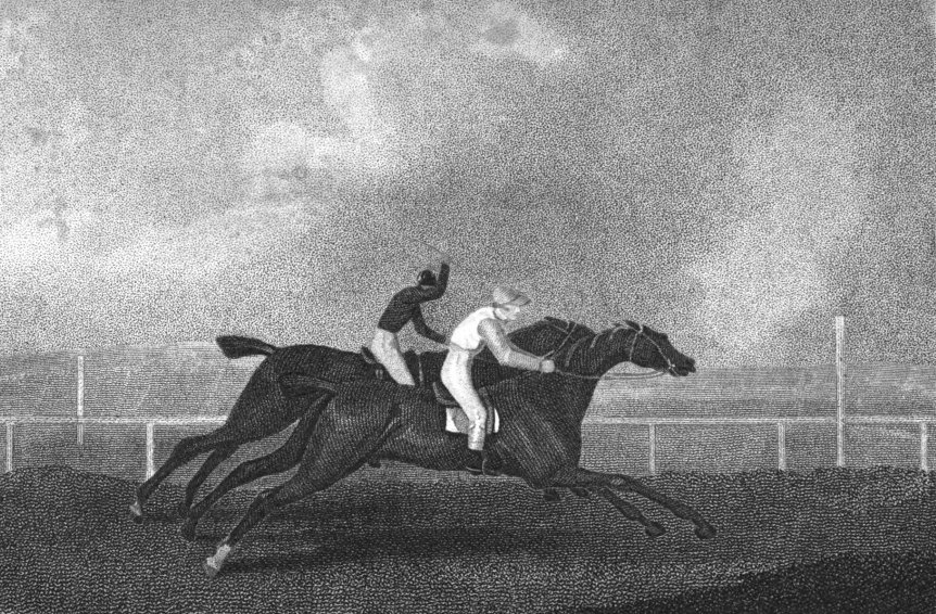 Mr. Mellish's colt Sancho beating Lord Egremont's colt Hannibal in a match race that took place on 26 July 1805. Hannibal won the 1804 Epsom Derby.